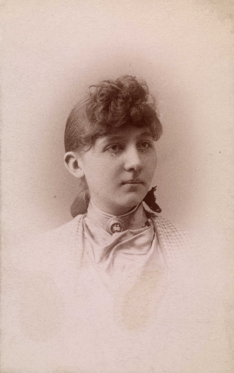 norwegian pianist and piano teacher